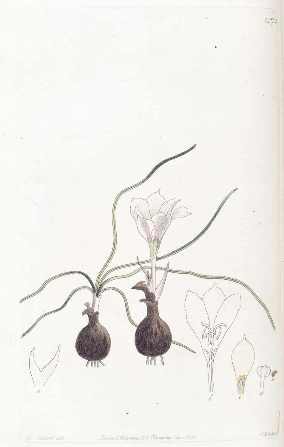 Zephyranthes americana